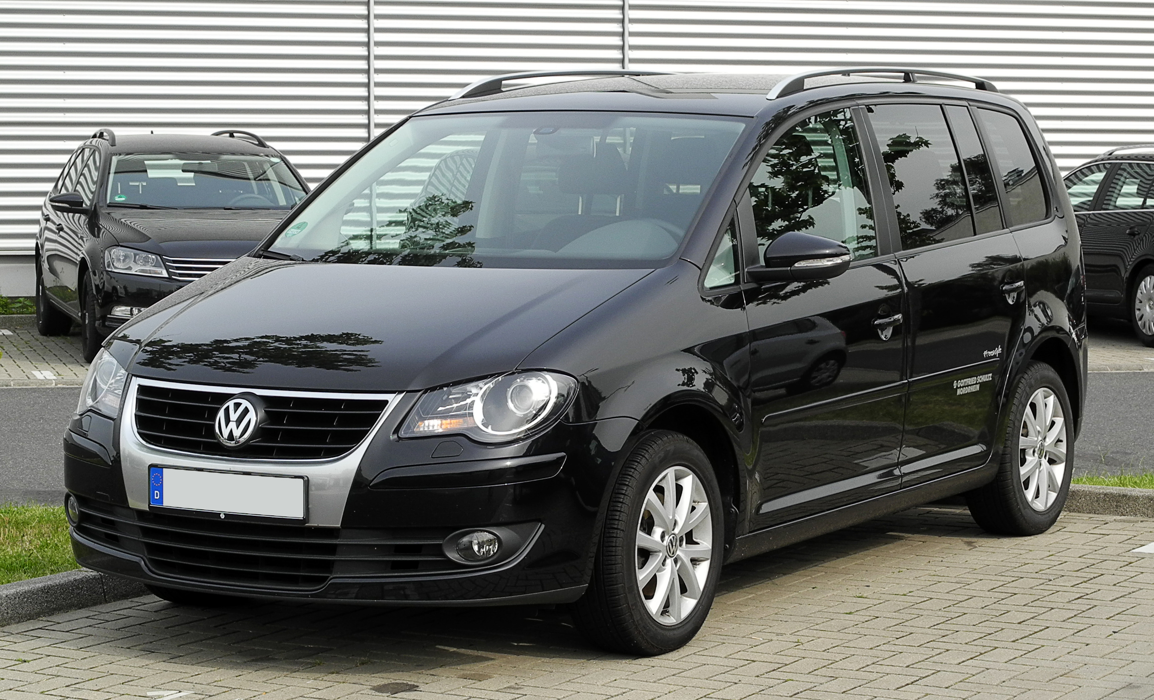 VW Touran Freestyle (1. Facelift)